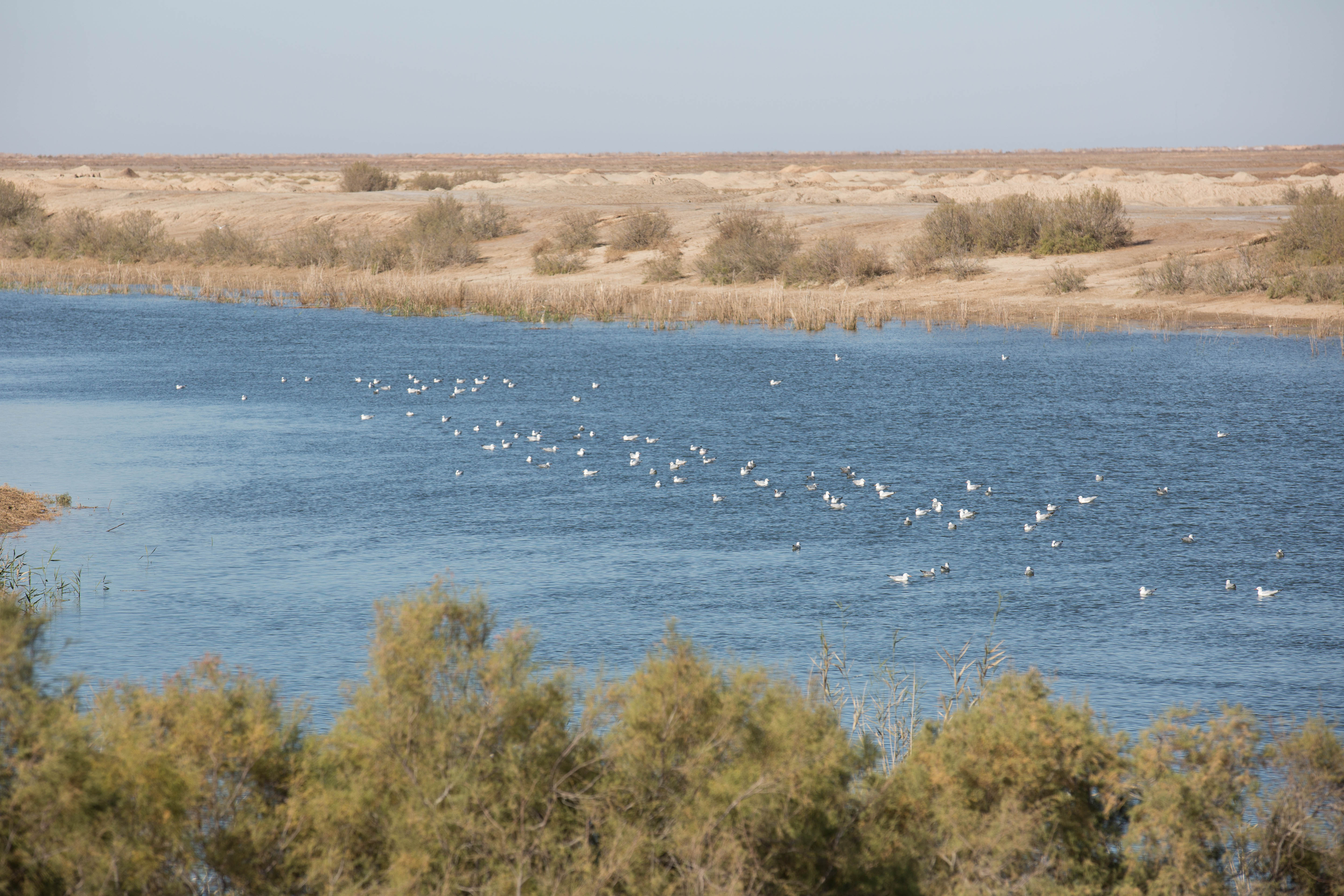 a lake with migrating birds in the Samawa desert southern Iraq